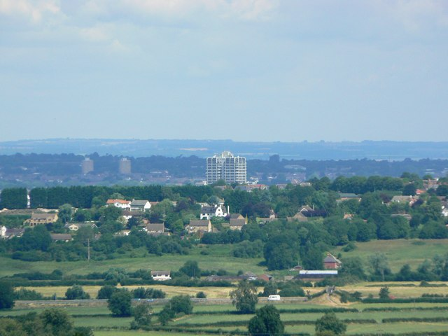 David Murray John Tower, Swindon This building was erected in the late 1970s and commemorates the last Town Clerk of the old Swindon Borough Council, which went out of existence in 1974 only to reappear in 1997 as a unitary authority. Murray John is credited with playing a large part in ensuring Swindon's prosperity in a post-railway age. The building contains a mix of commercial and residential uses.